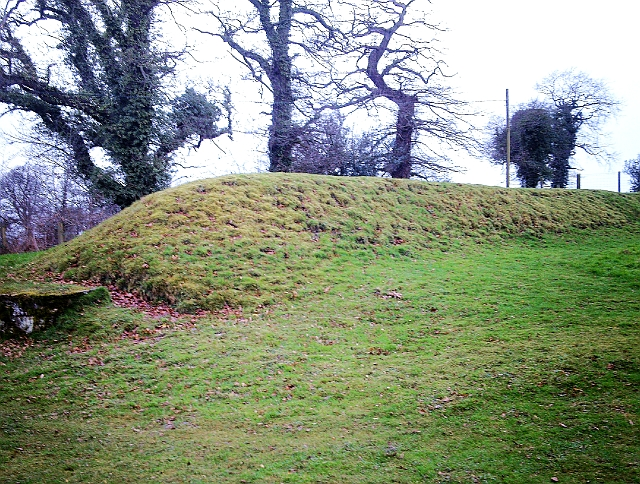 Hadrian's Wall at Dovecote Bridge This section of wall was excavated in the 1960s and was visible for nearly 20 years. Because it was built from soft red sandstone erosion became a problem, so the wall was reburied to preserve what remained.